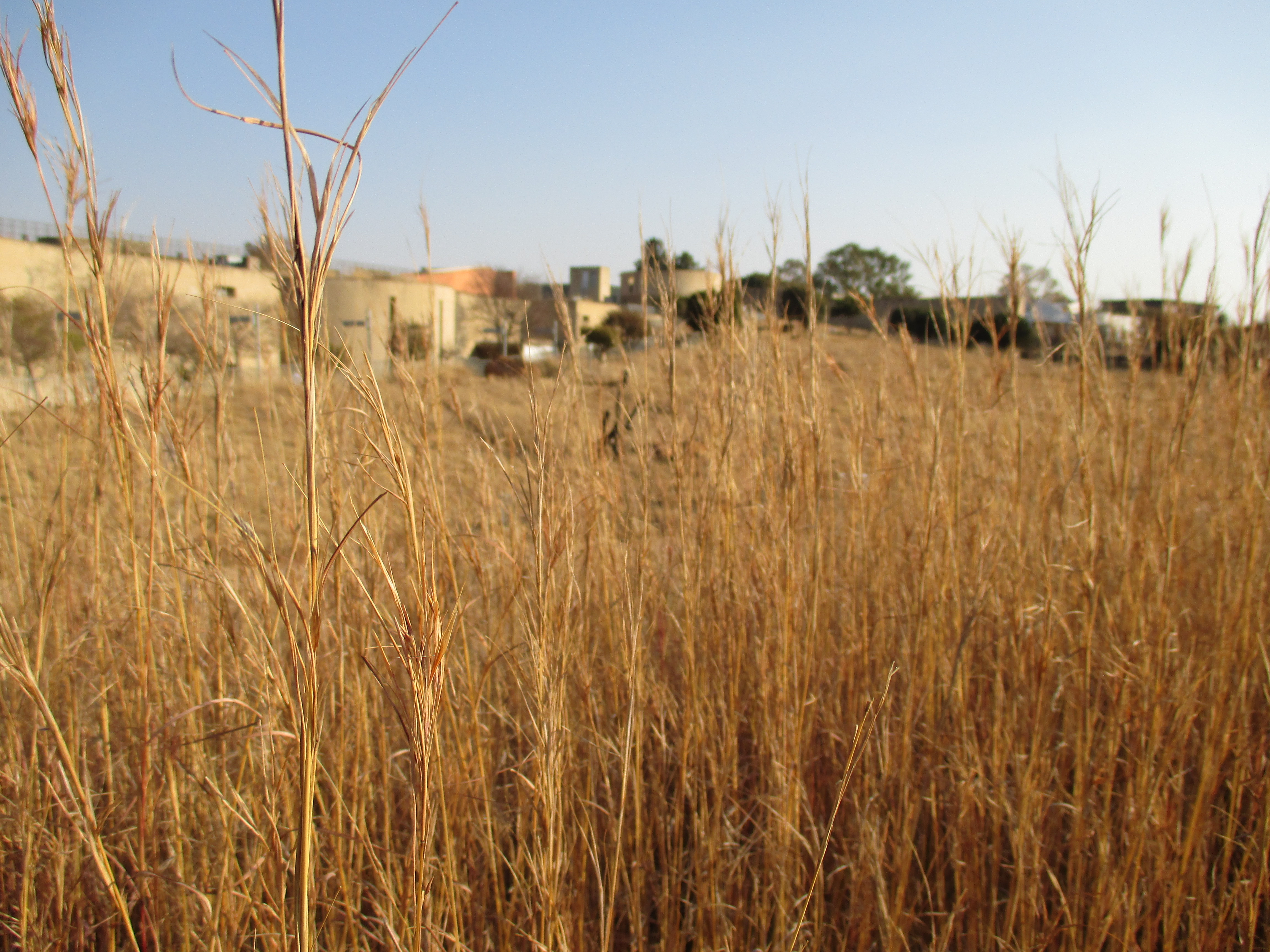 Overgrown park in Johannesburg South, Gauteng (Republic of South Africa)